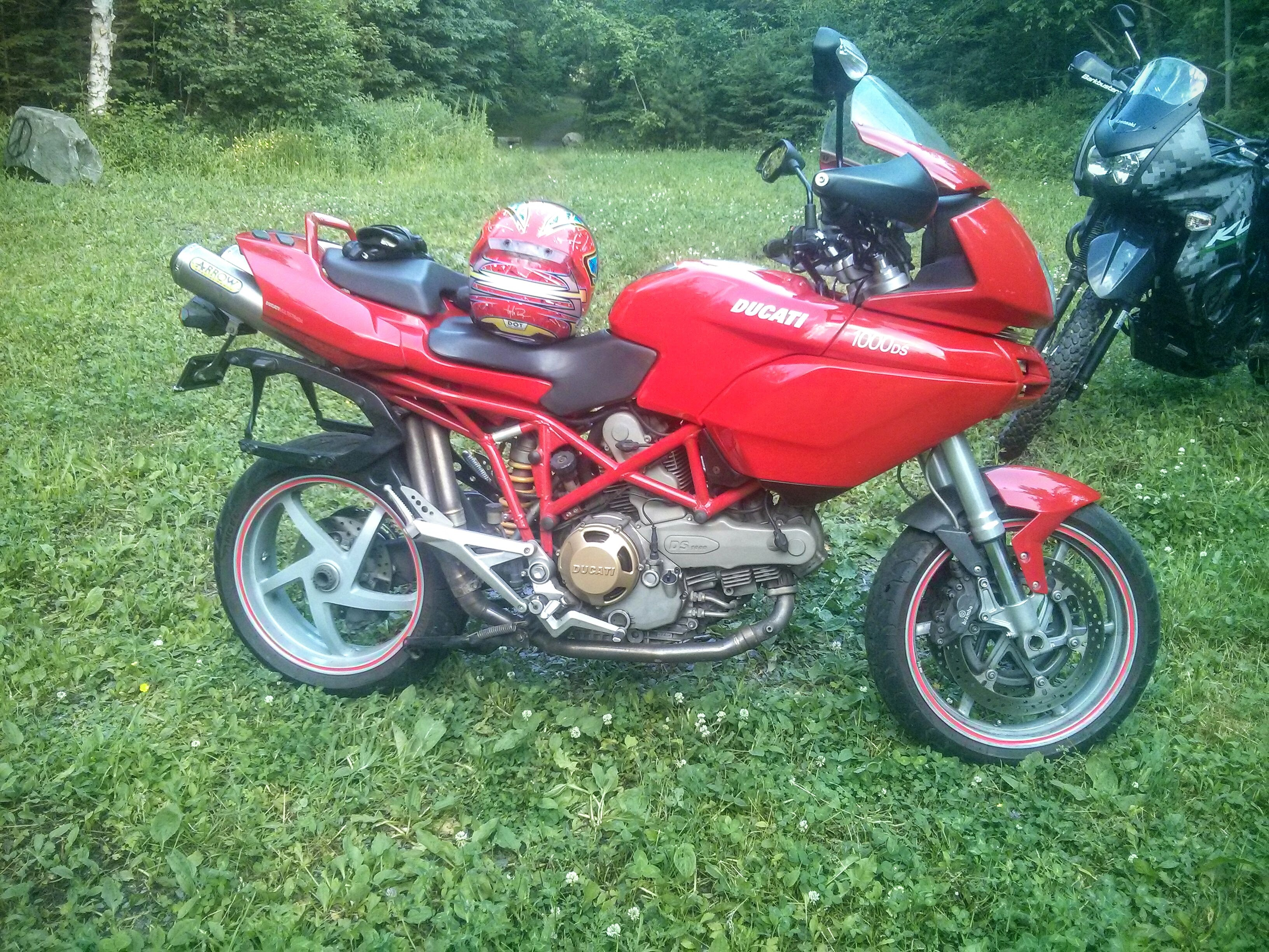 Red 2006 Ducati Multistrada 1000DS